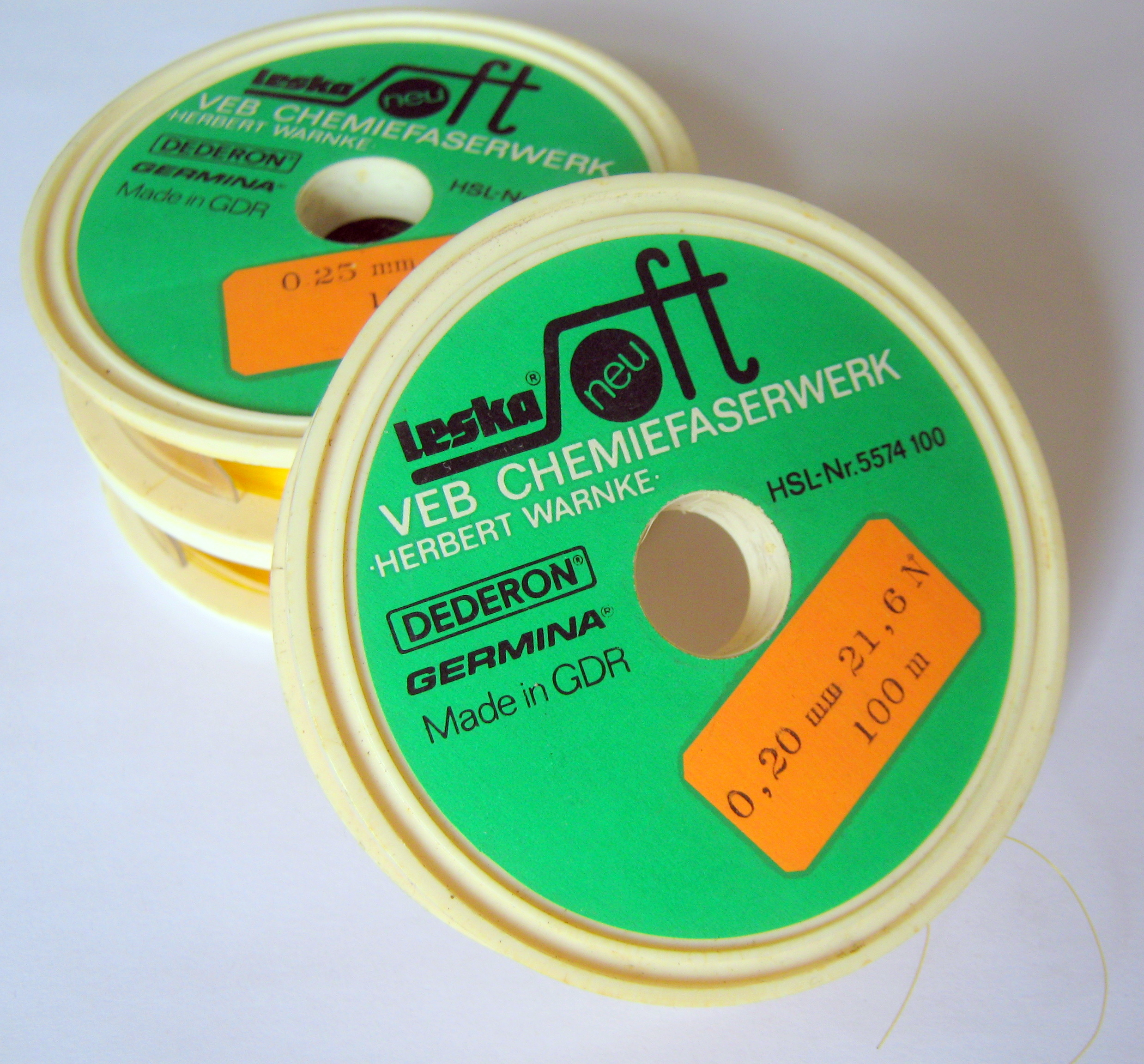 Fishing line made in Guben, GDR